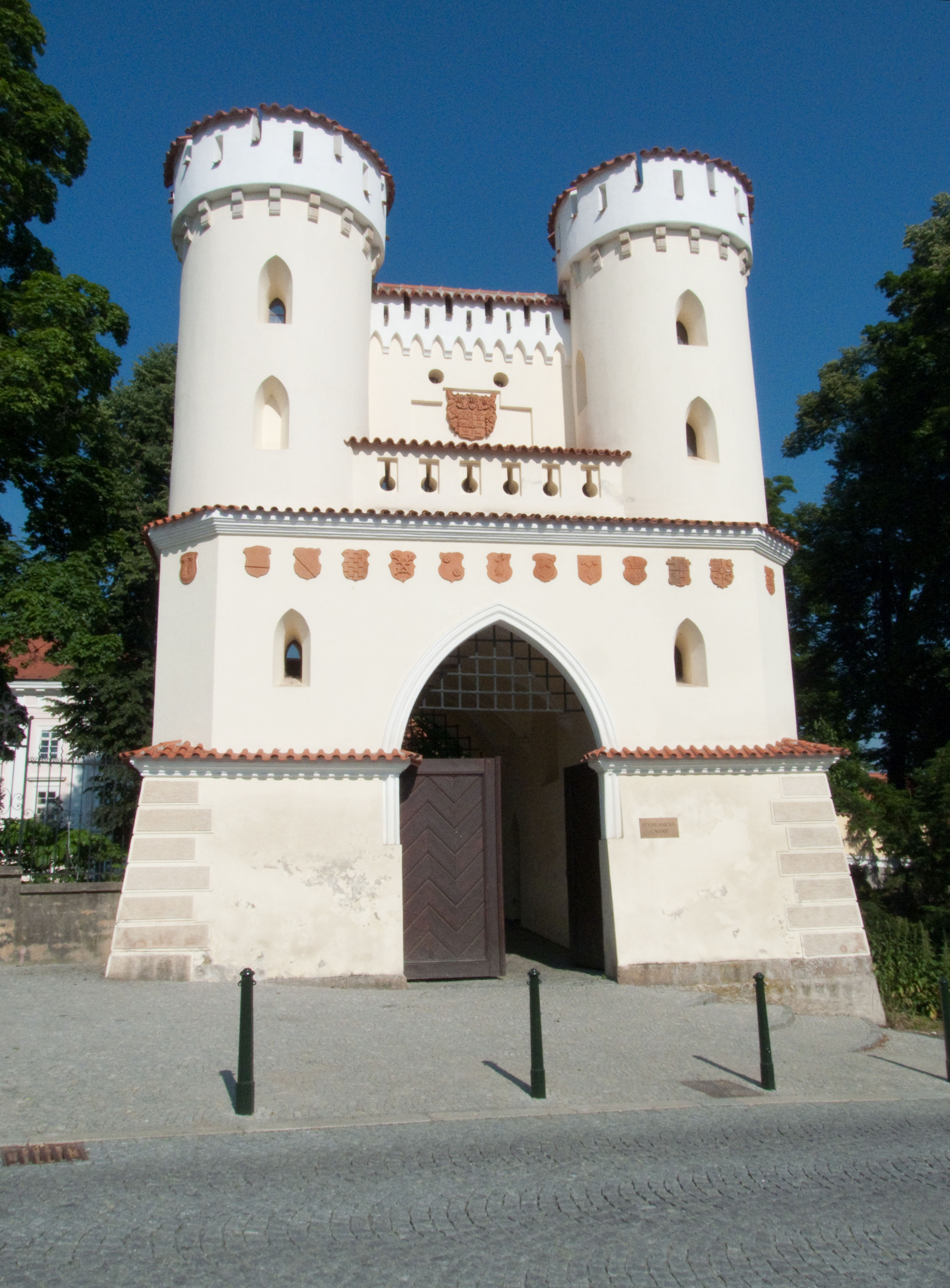 Vlašimská Gate - entrance to Vlašim Castle and the local museum, Benešov district, Czech Republic